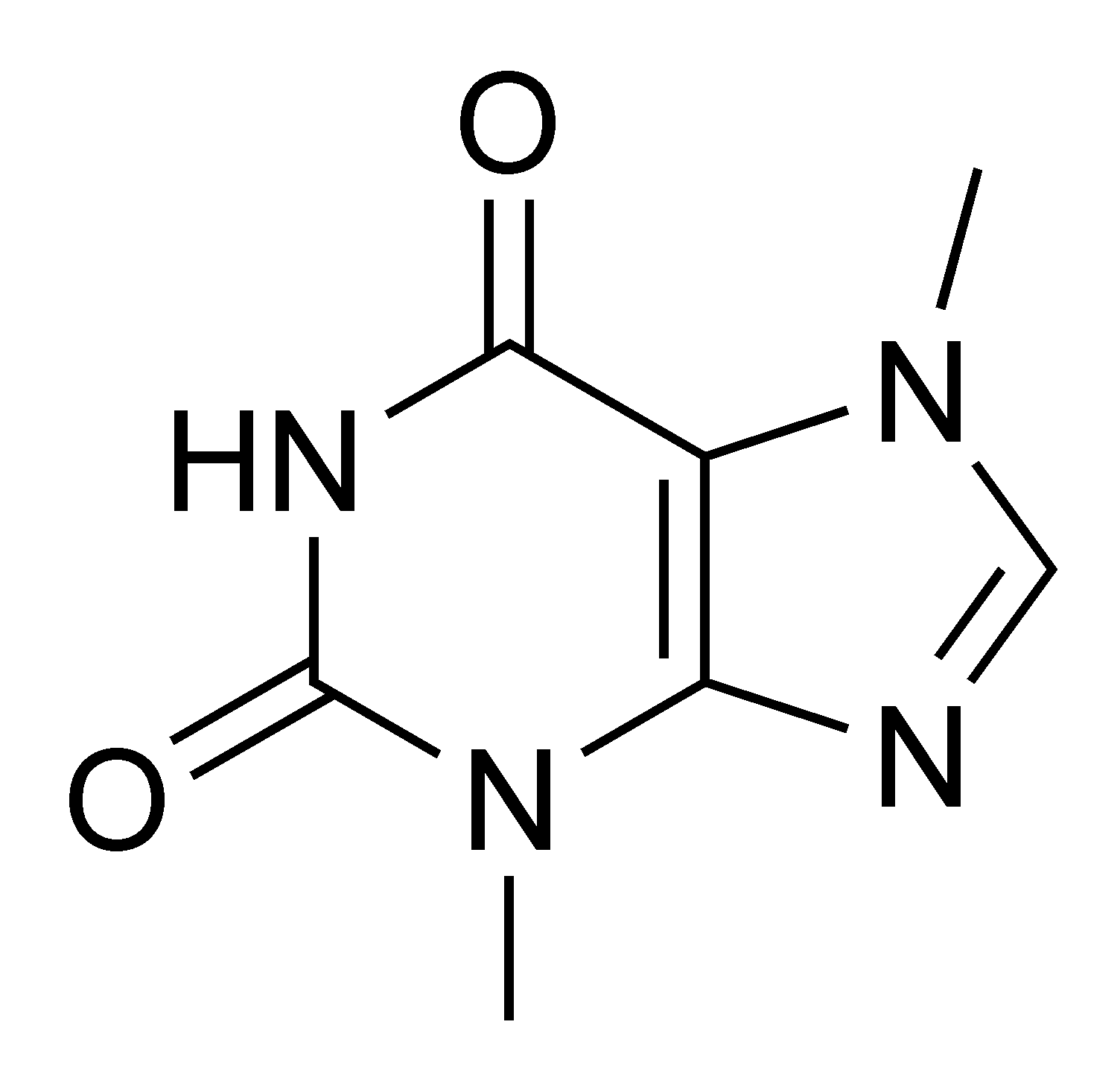 Chemical structure of theobromine